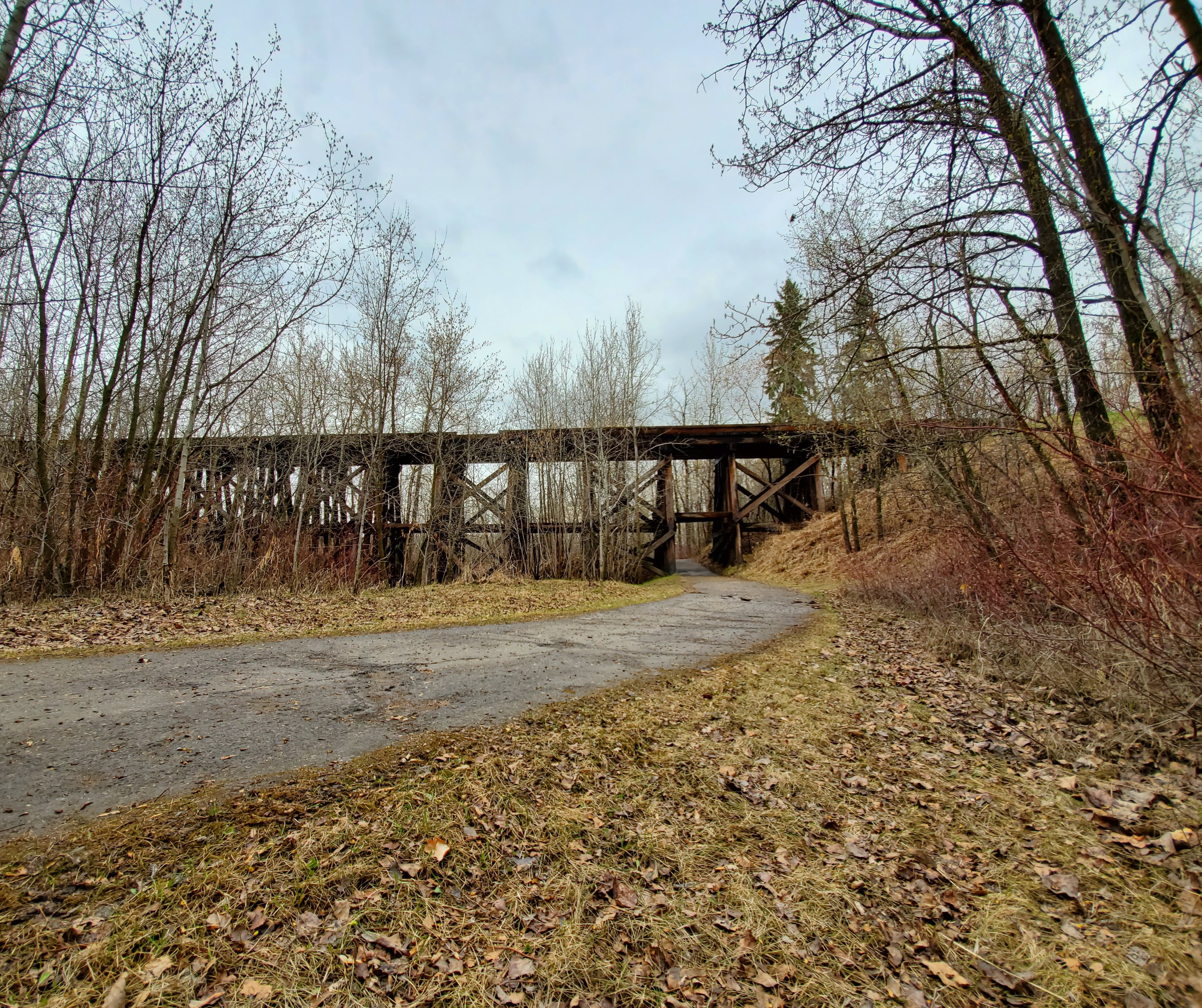 Ross Creek Trail Loop